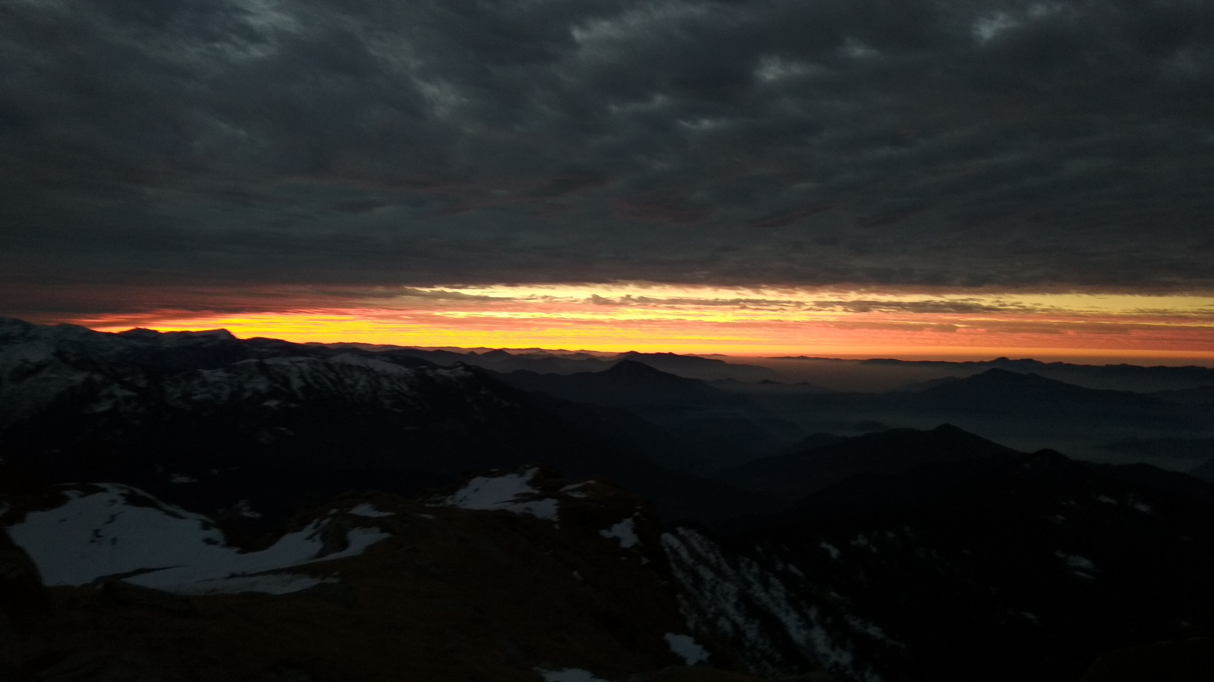 The view of the rising Sun from Kedarkantha Summit at 12500ft